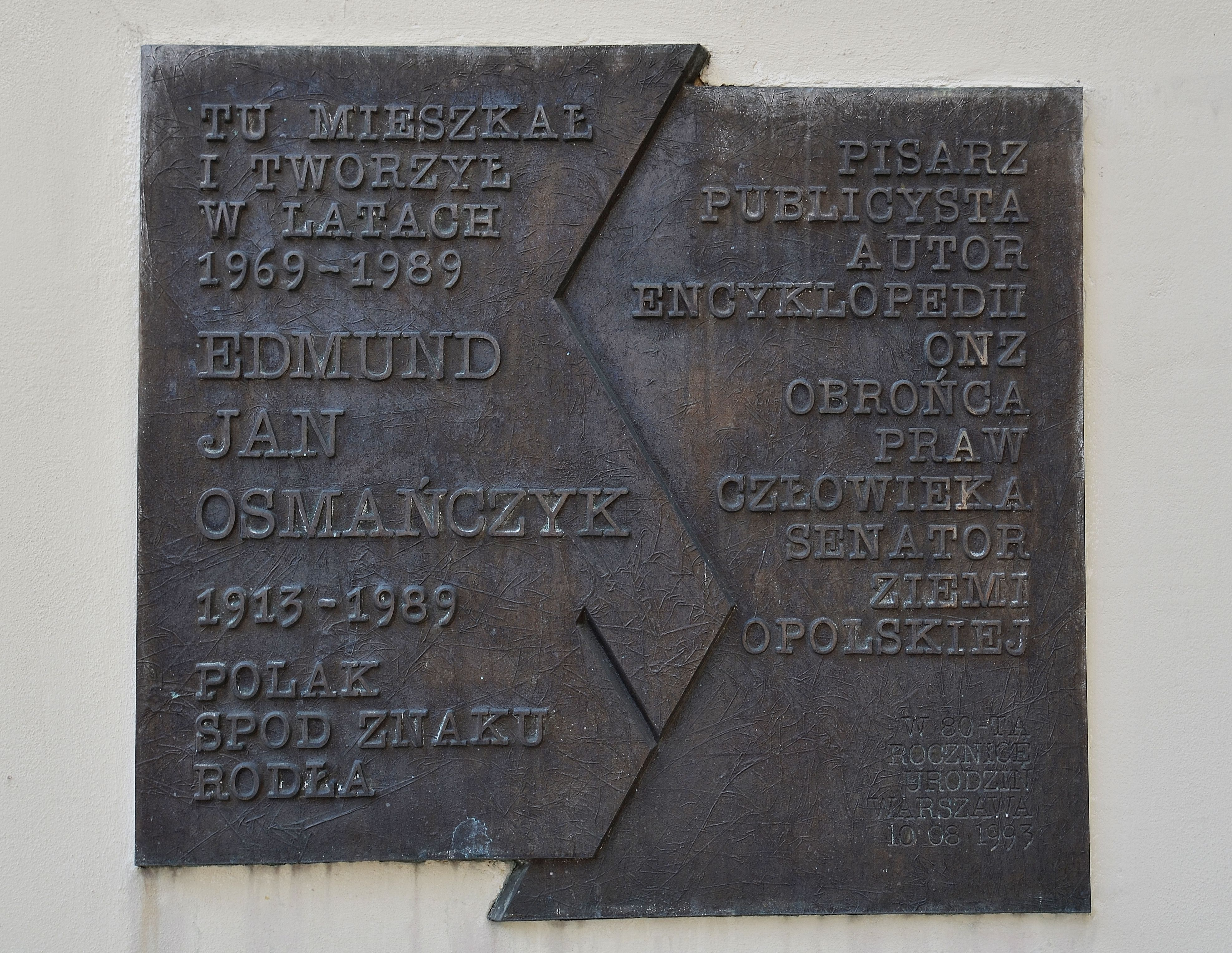 Plaque in memory of Edmund Osmańczyk at 8 Zamkowy Square in Warsaw